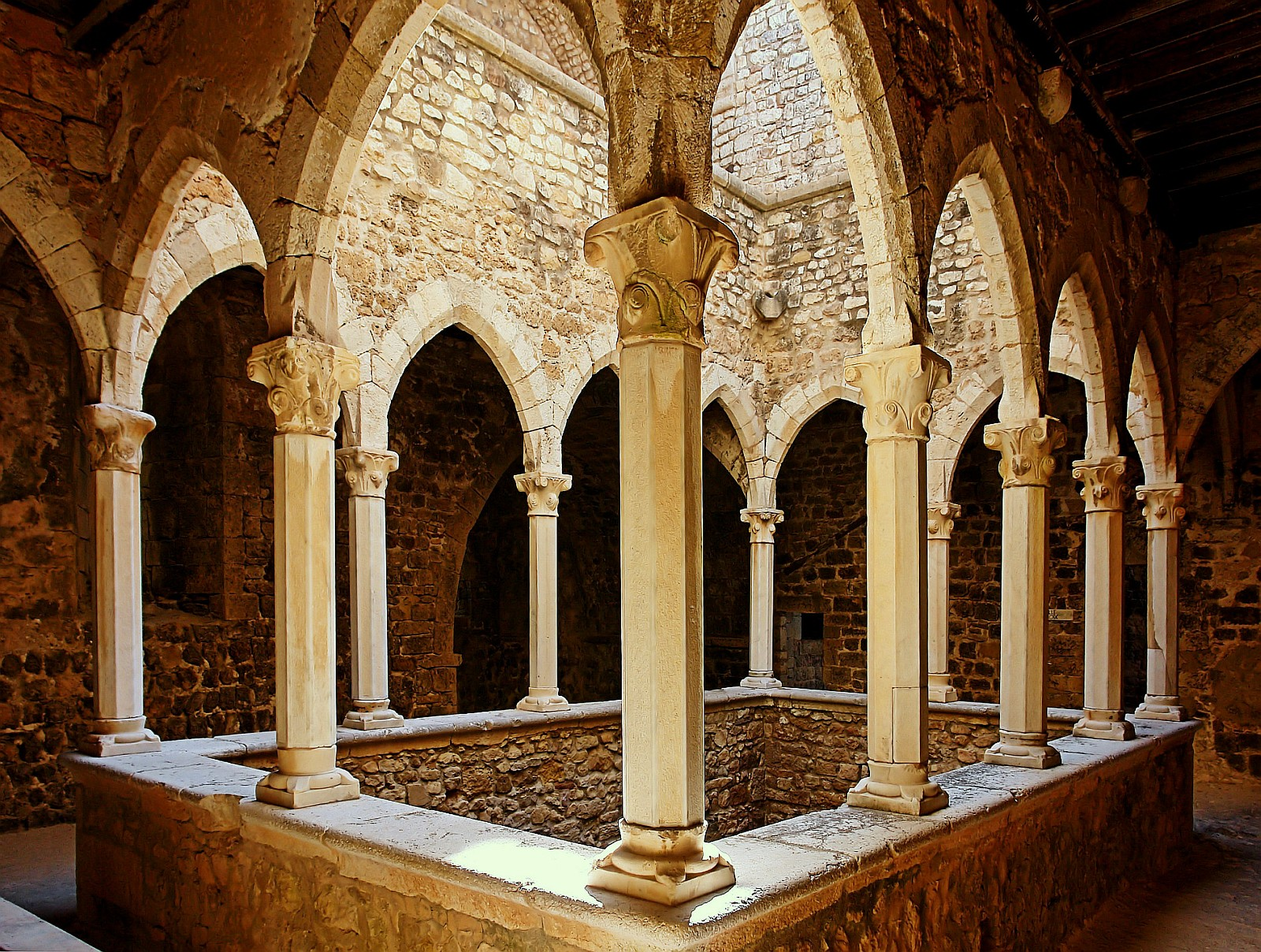 Fortified monastery of Abbey Lérins - Cannes : Cloitre du Travail (=Cloister of the work) -XIV Century- at the second floor